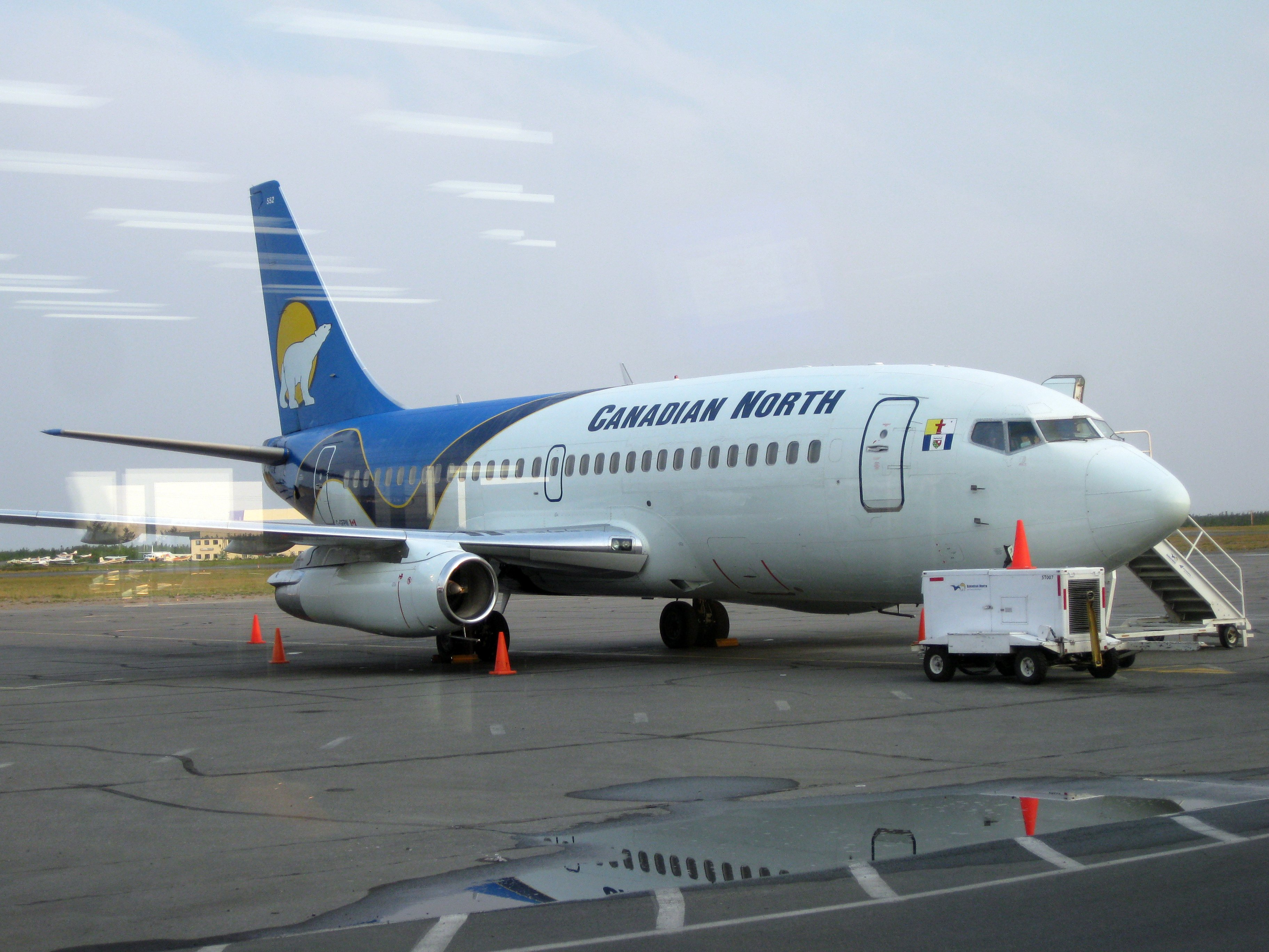 Canadian North B737 at Yellowknife Airport